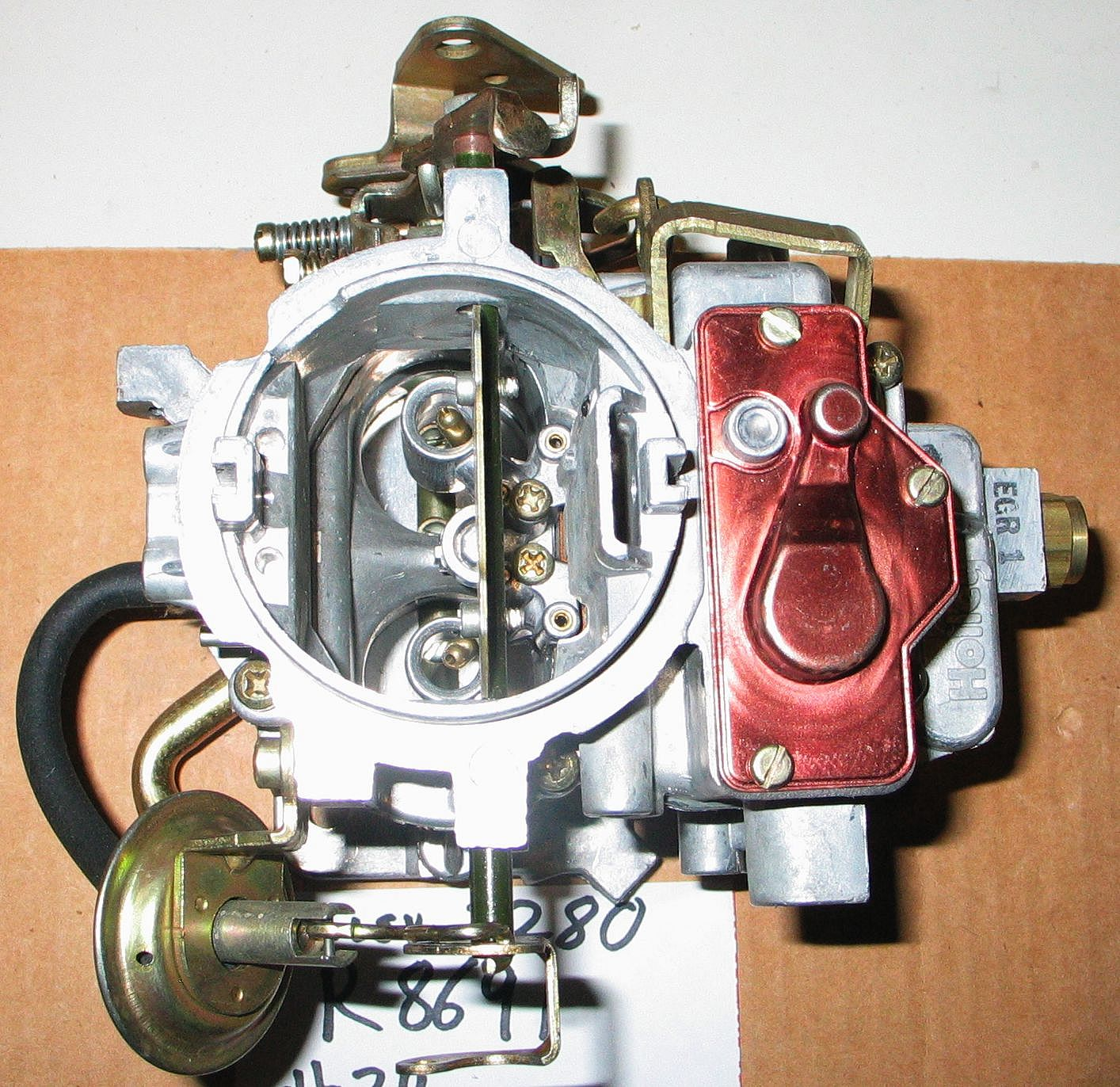 A new Holley model 2280 type R8691 2-barrel carburetor, top view, showing the dual venturi configuration.